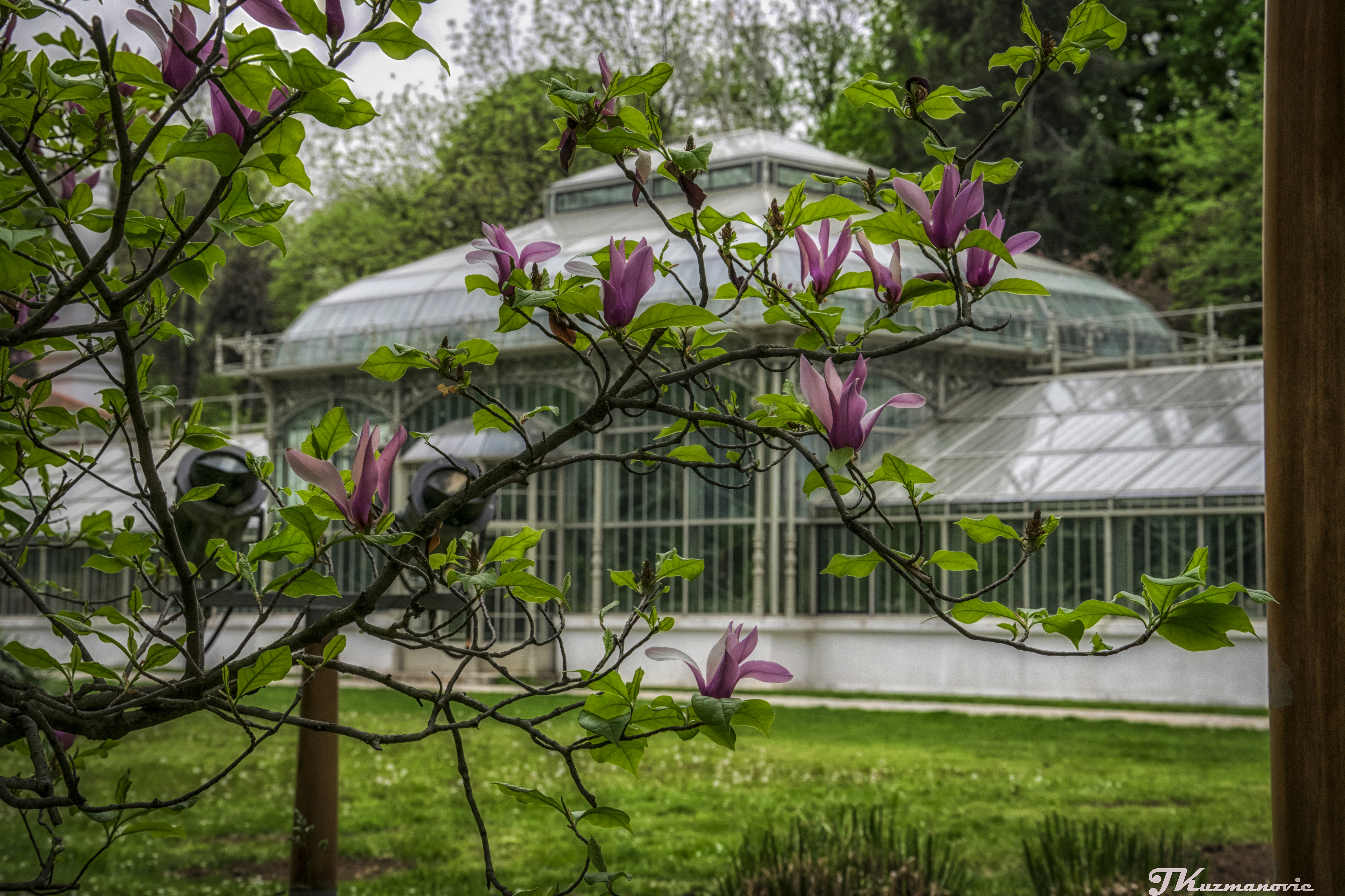 Ово је фотографија заштићеног природног добра у Србији под шифром: СП005 This is a a photo of a natural area in Serbia with ID: СП005 Magnolias in Botanical Garden Jevremovac, in Belgrade.